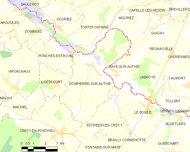 Map of French municipality Dompierre-sur-Authie